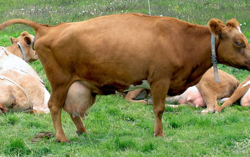 A rancher's cow defecating.